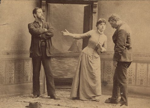 Georgia Cayvan in drama play "May Blossom" 1884